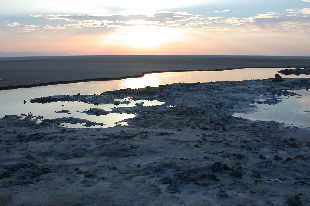 Chott el-Jerid lake in Tunisia at sunrise